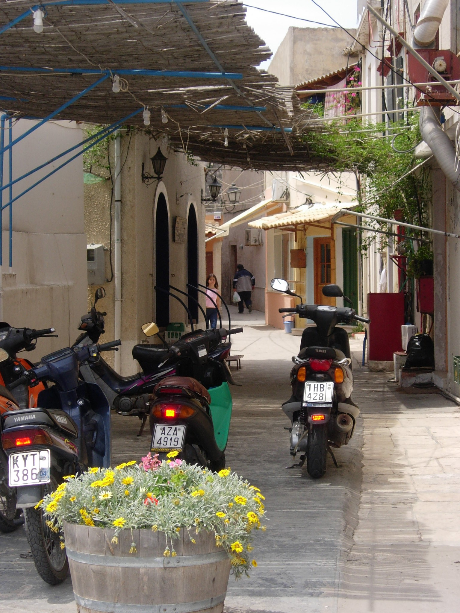 Narrow streets of Gaios